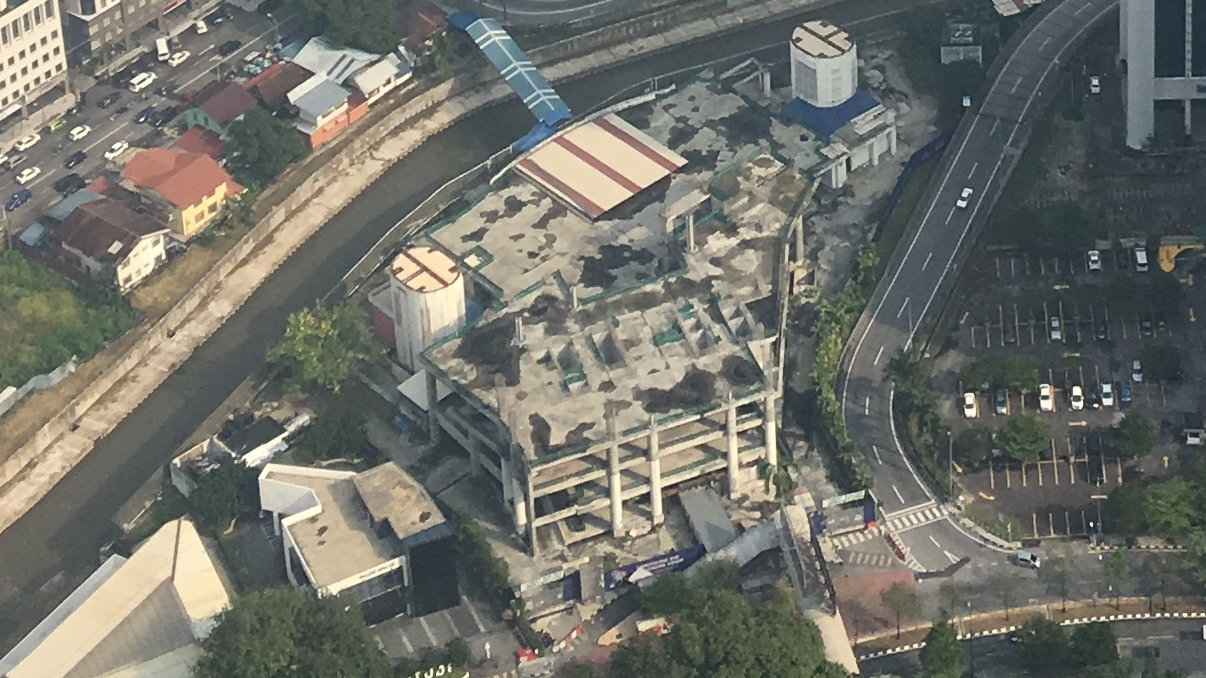 Malaysia - March 2019